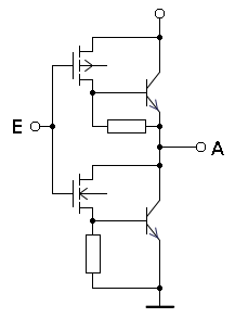 Inverter implementation with BiCMOS technology